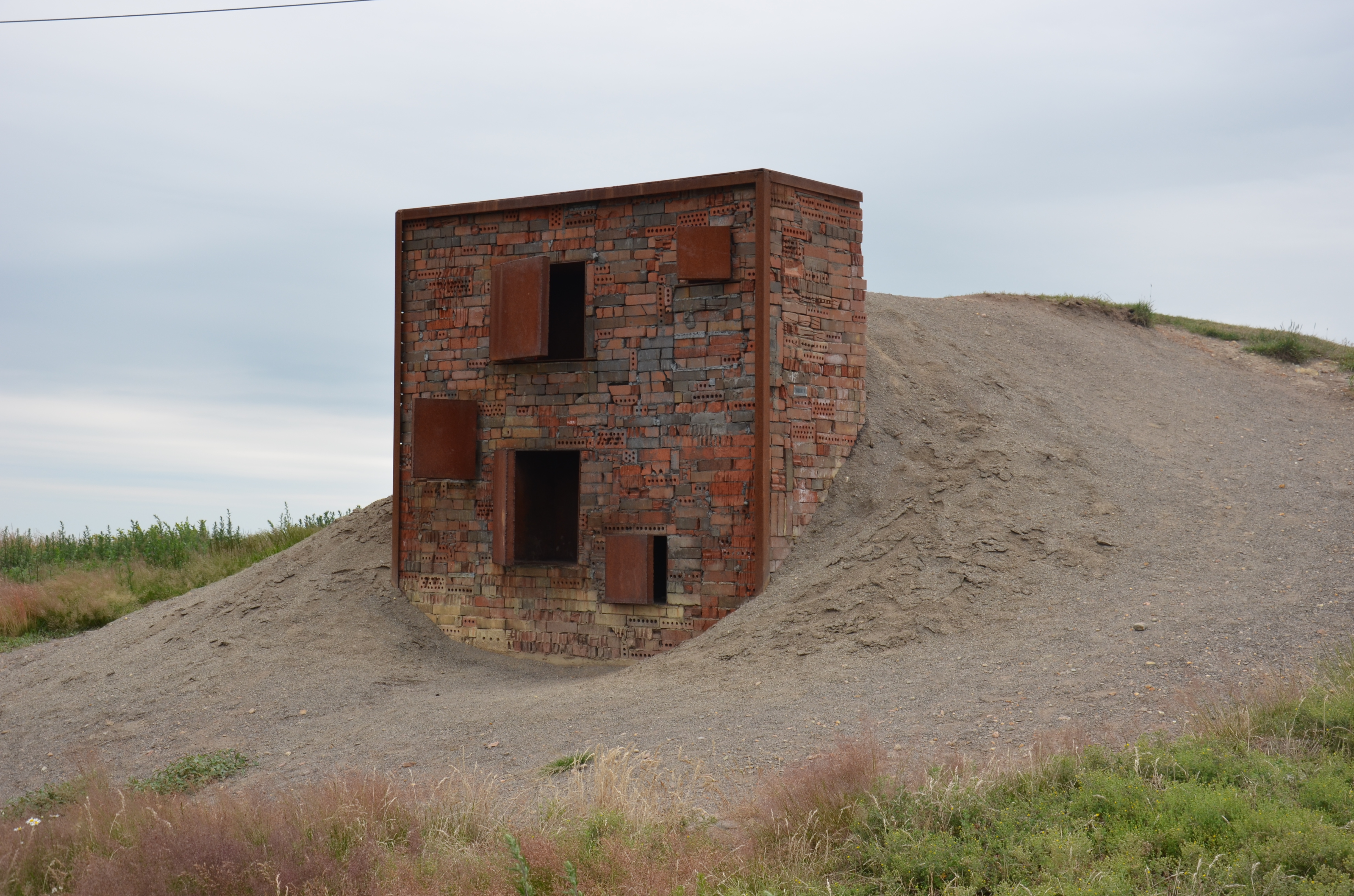 Bunker by James Bates, 2002, brick, steel, Konst på Hög, Kumla, Sweden